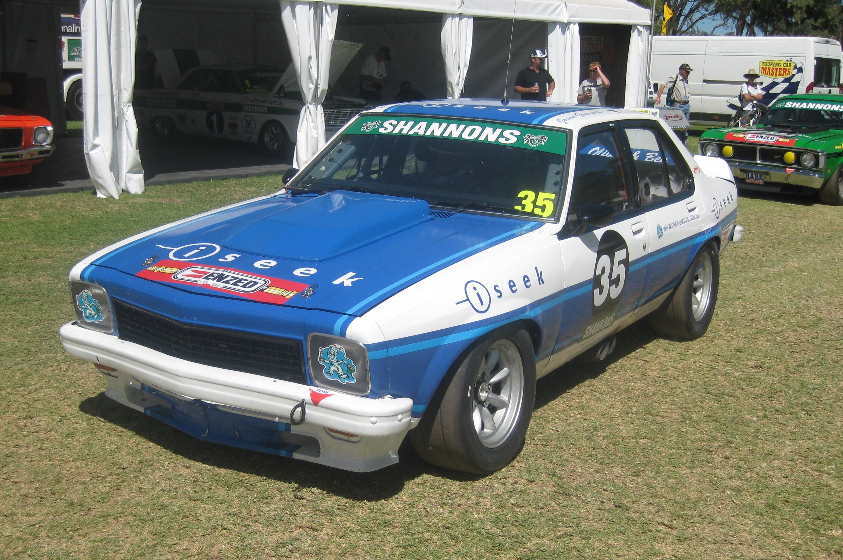 Holden LH Torana SL/R 5000 of Jason Gomersall. Round 1, 2014 Touring Car Masters, Adelaide Parklands Circuit.